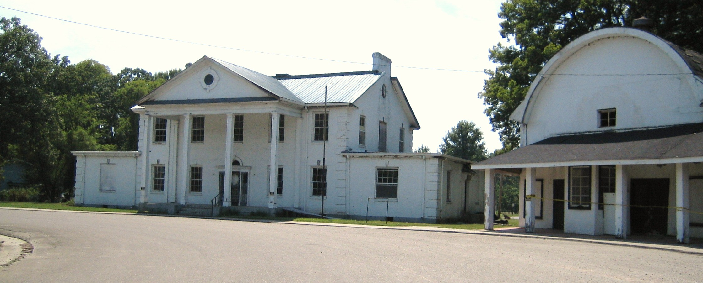 Dyess Colony Administration Building